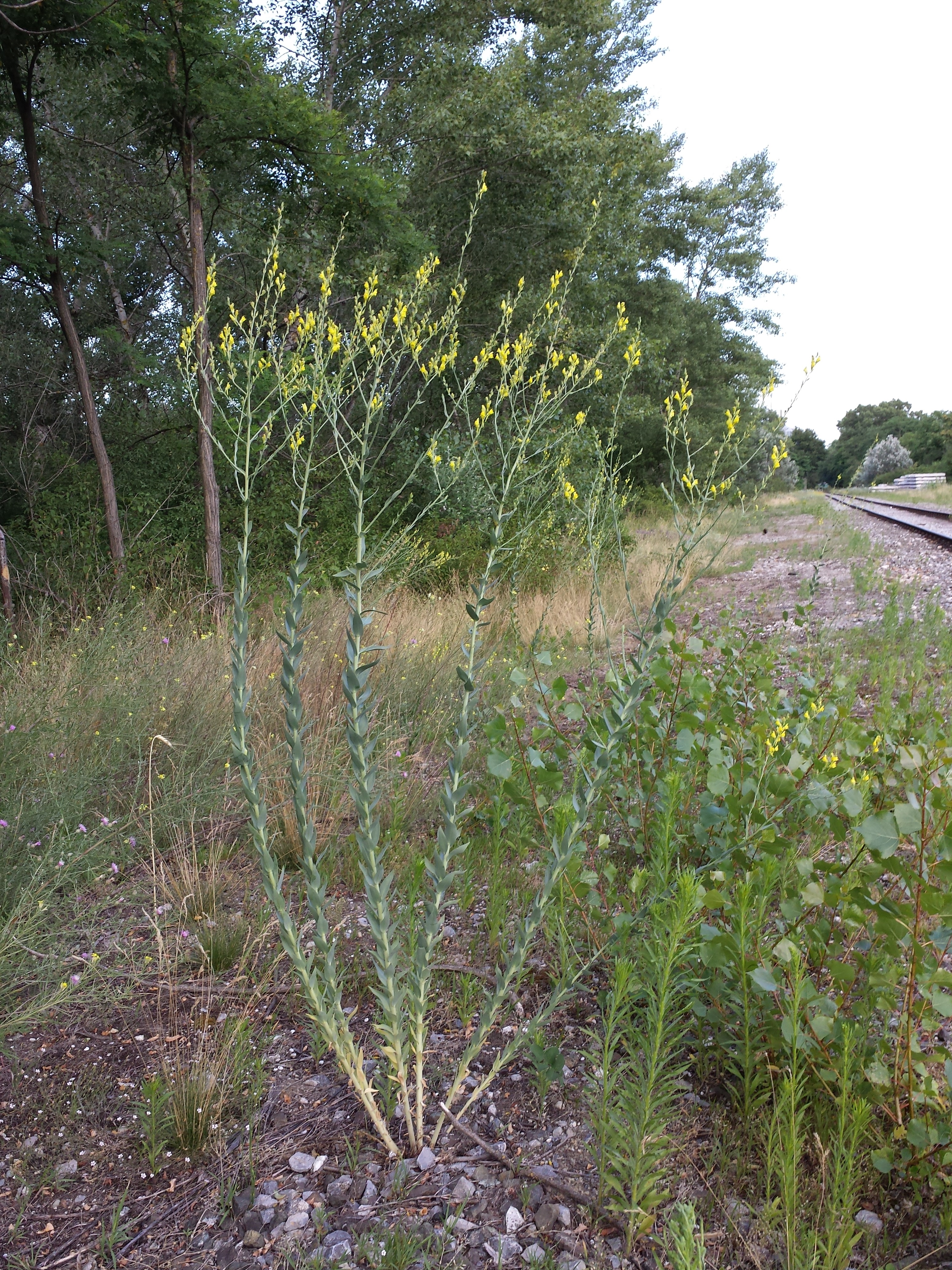 Habitus Taxon: Linaria genistifolia (sensu Fischer et al. EfÖLS 2008) Location: old marshalling yard Breitenlee, Vienna-Donaustadt - ca. 160 m a.s.l. Habitat: ballast